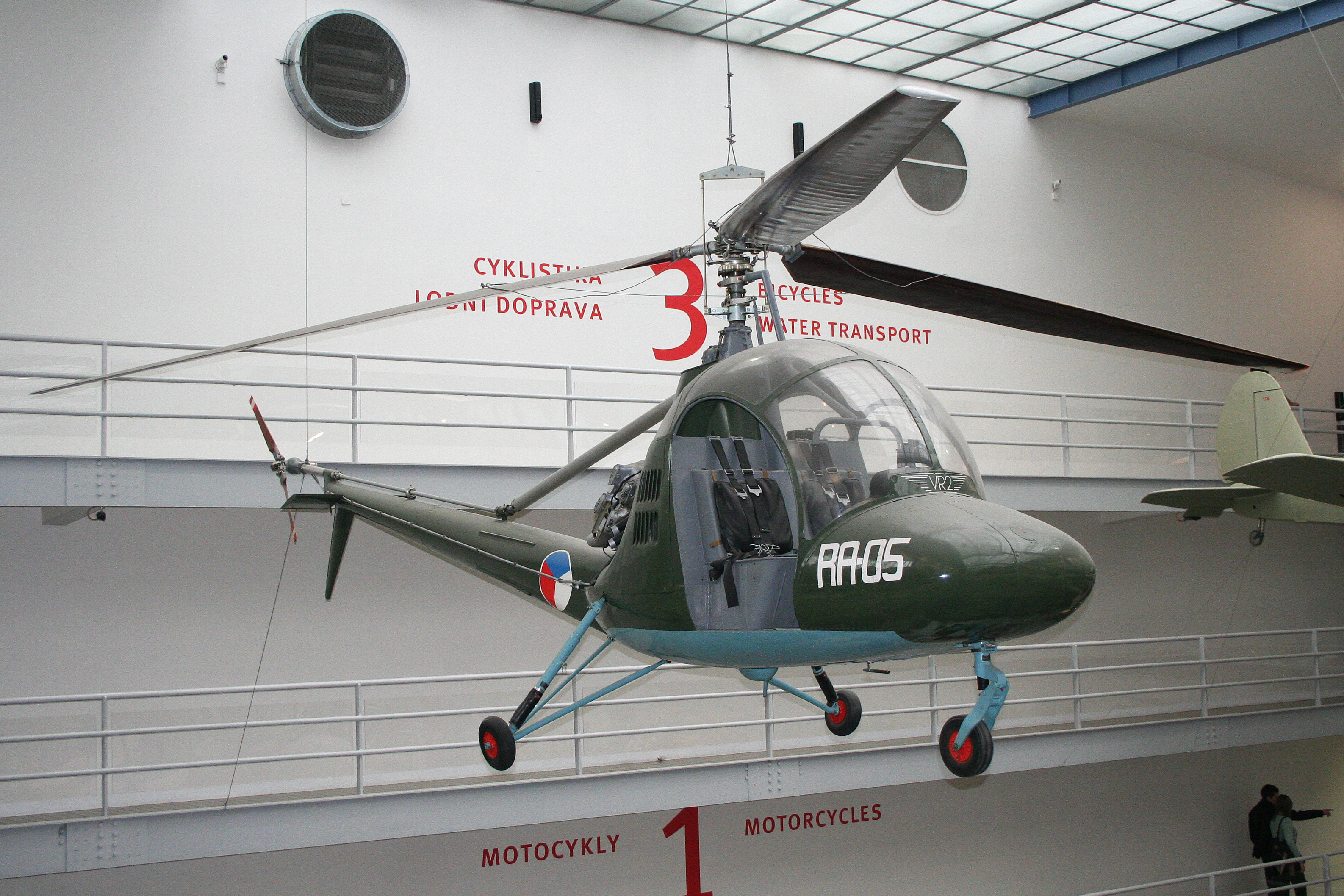 This is actually the 2nd prototype Heli-Baby. msn 0002. National Technical Museum, Prague. Czech Republic. 07-10-2012